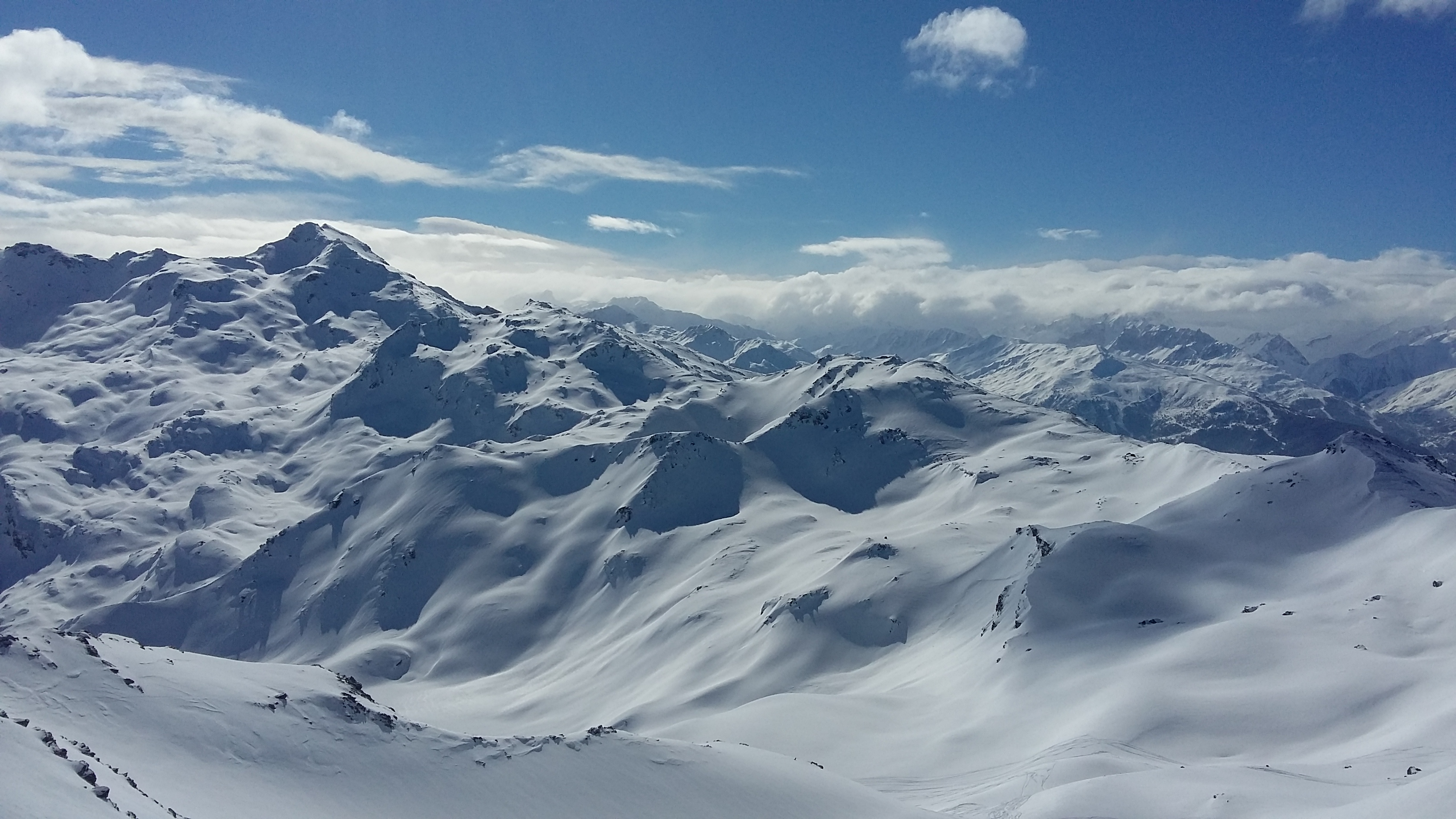 View of the mountains